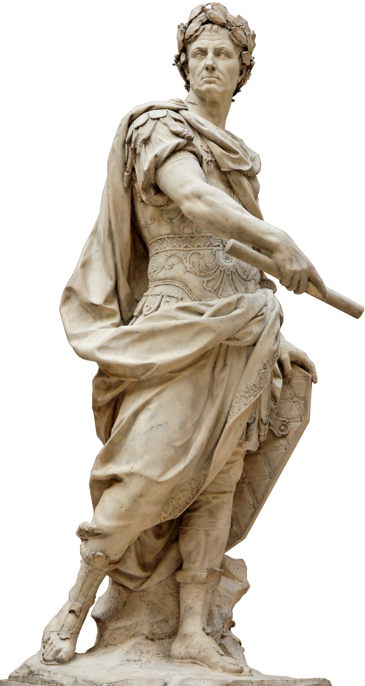 Julius Caesar. Commissioned in 1696 for the Gardens of Versailles, to go with the Annibal by Sébastien Slodtz.